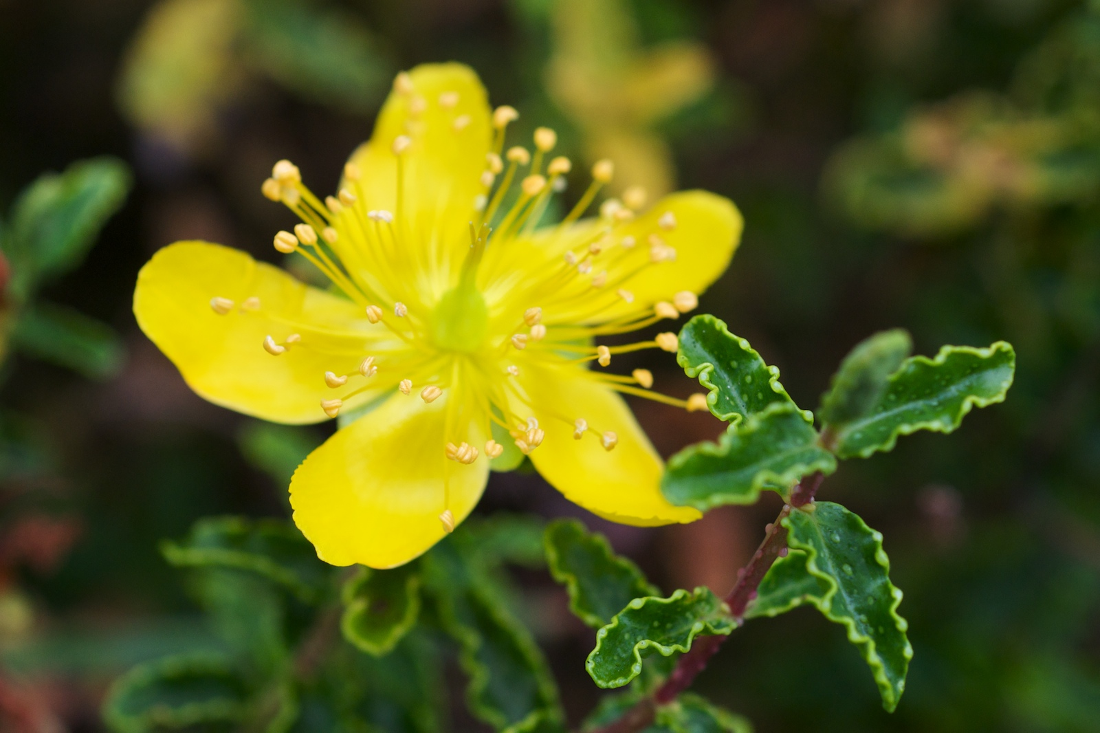 Hypericum balearicum, a species from the Balearic Islands, photographed at the University of California, Berkeley Botanical Garden